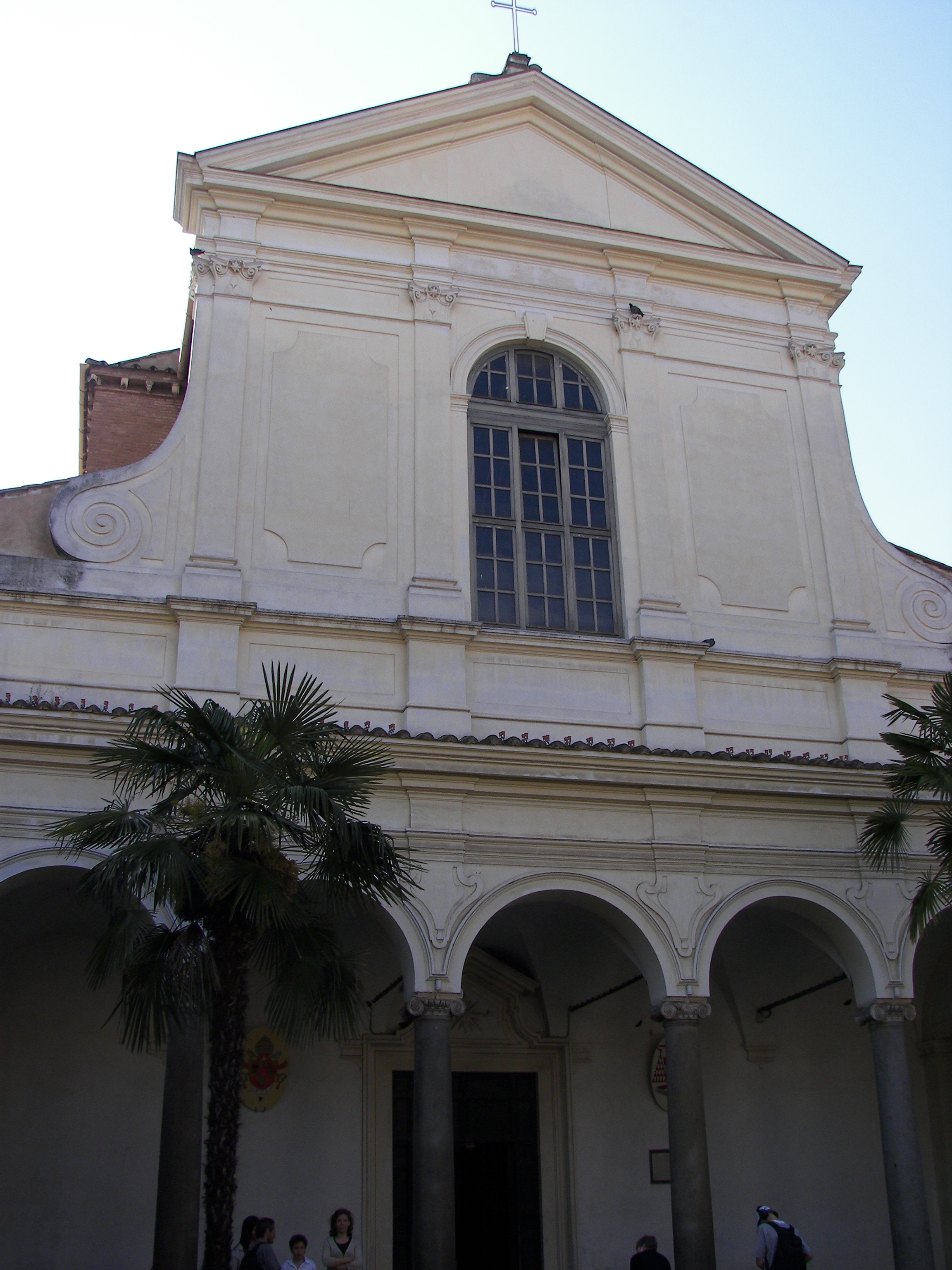 Courtyard entryway for the church of San Clemente in Rome.